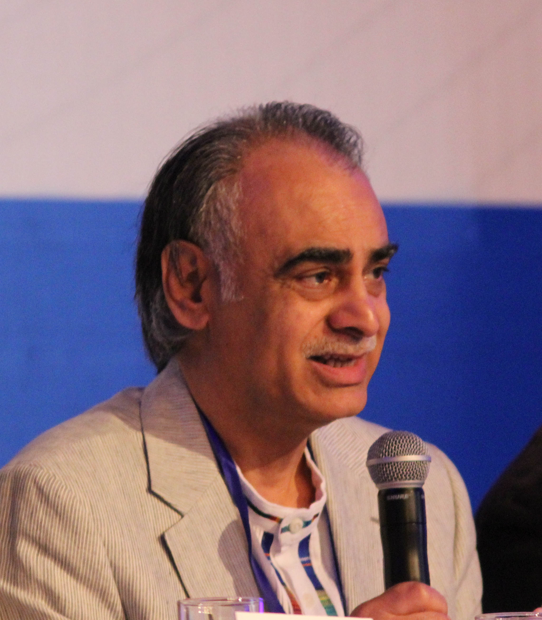 Sardar at an International Futures Studies Seminar in Quito (Ecuador)